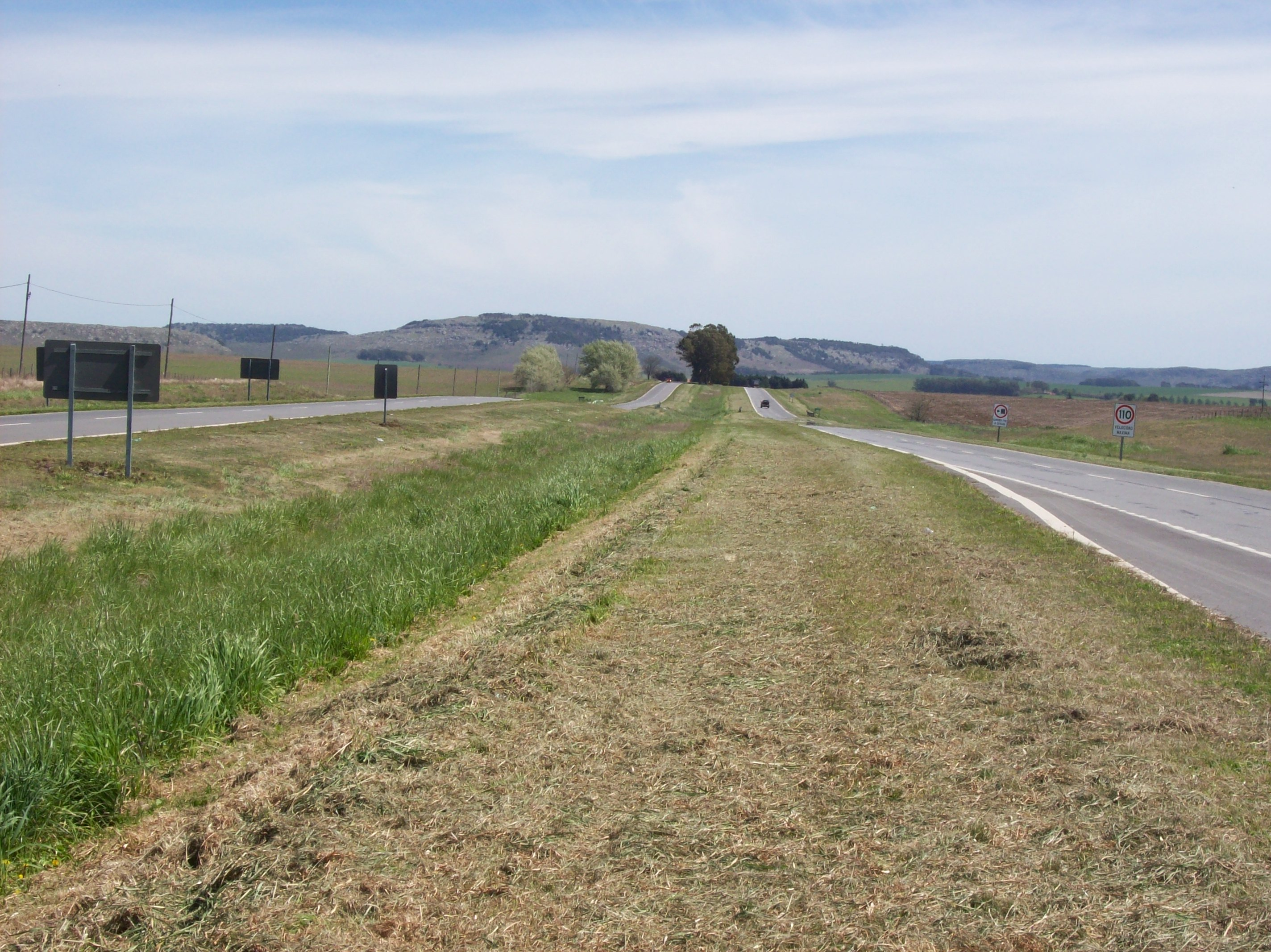 National Route 226 at 2.8 km before El Dorado toll station towards northwest. Located at Buenos Aires Province, Argentina.